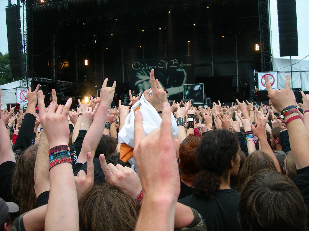 Picture of the mainstage at Graspop Metal Meeting 2007 during the Children Of Bodom performance taken by myself.